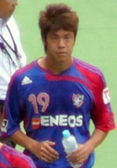 Masahiko Inoha from FC Tokyo